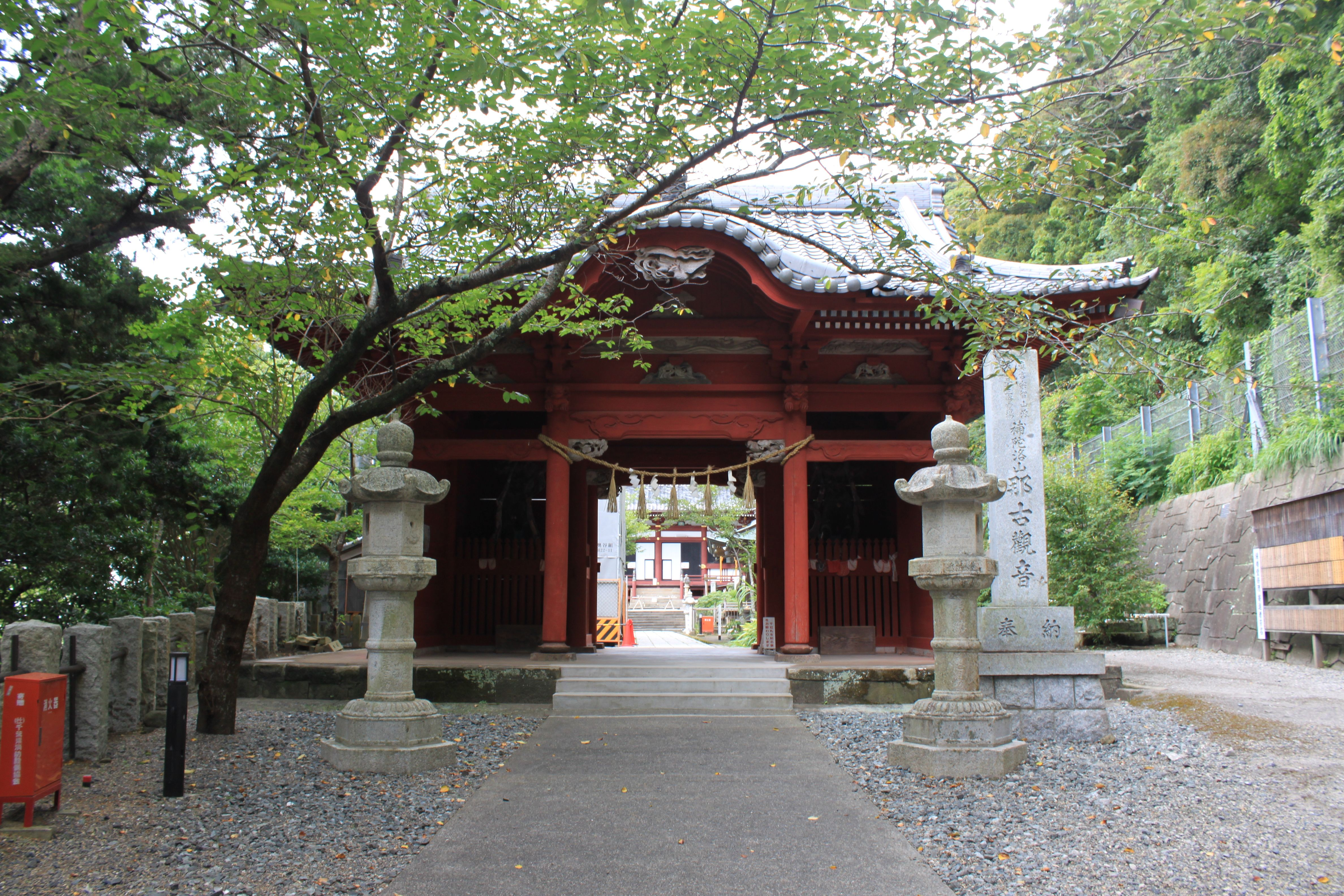 Niōmon gate of Nago-ji temple in Tateyama, Chiba